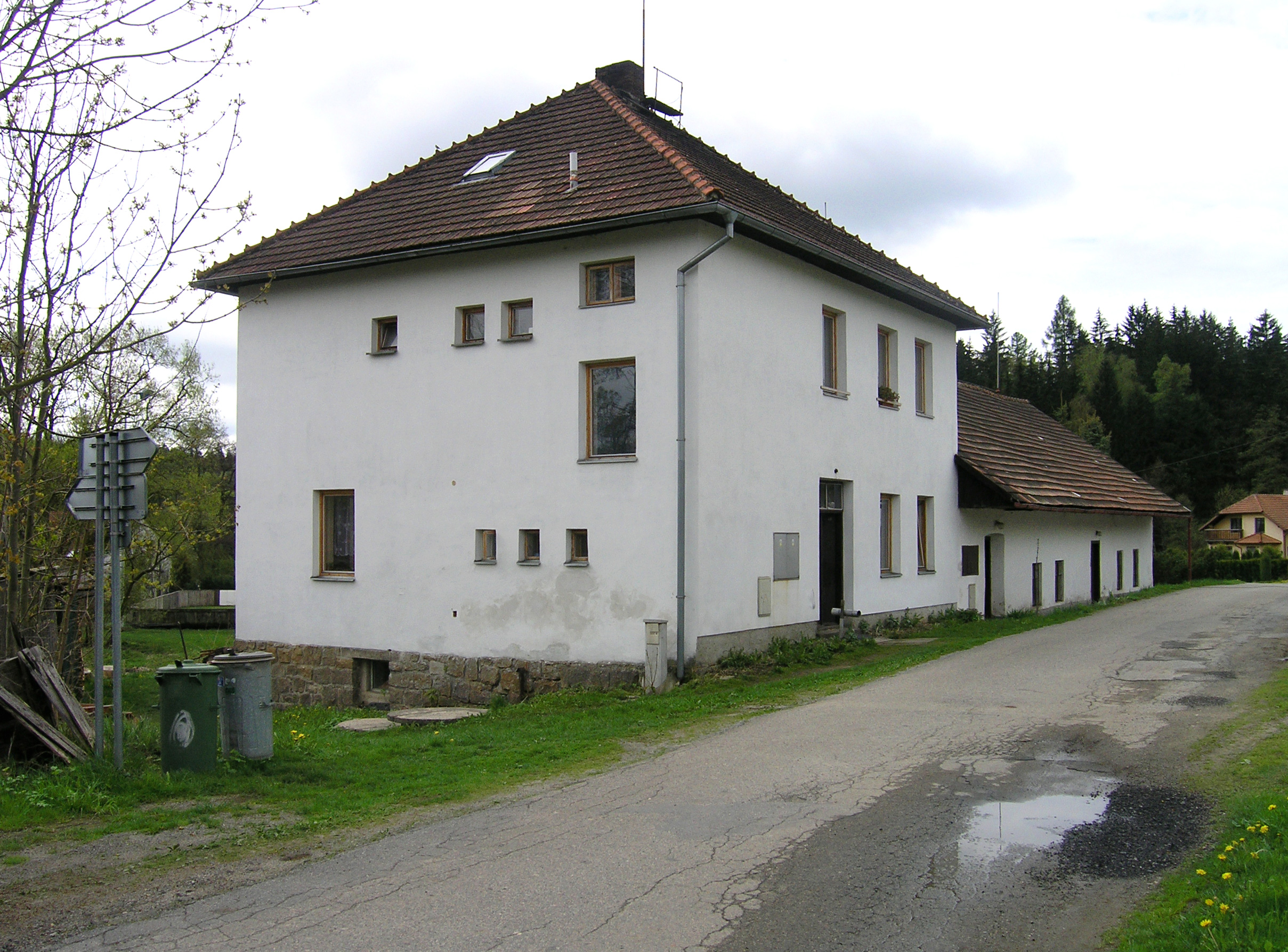 West side of Včelnička village, Czech Republic